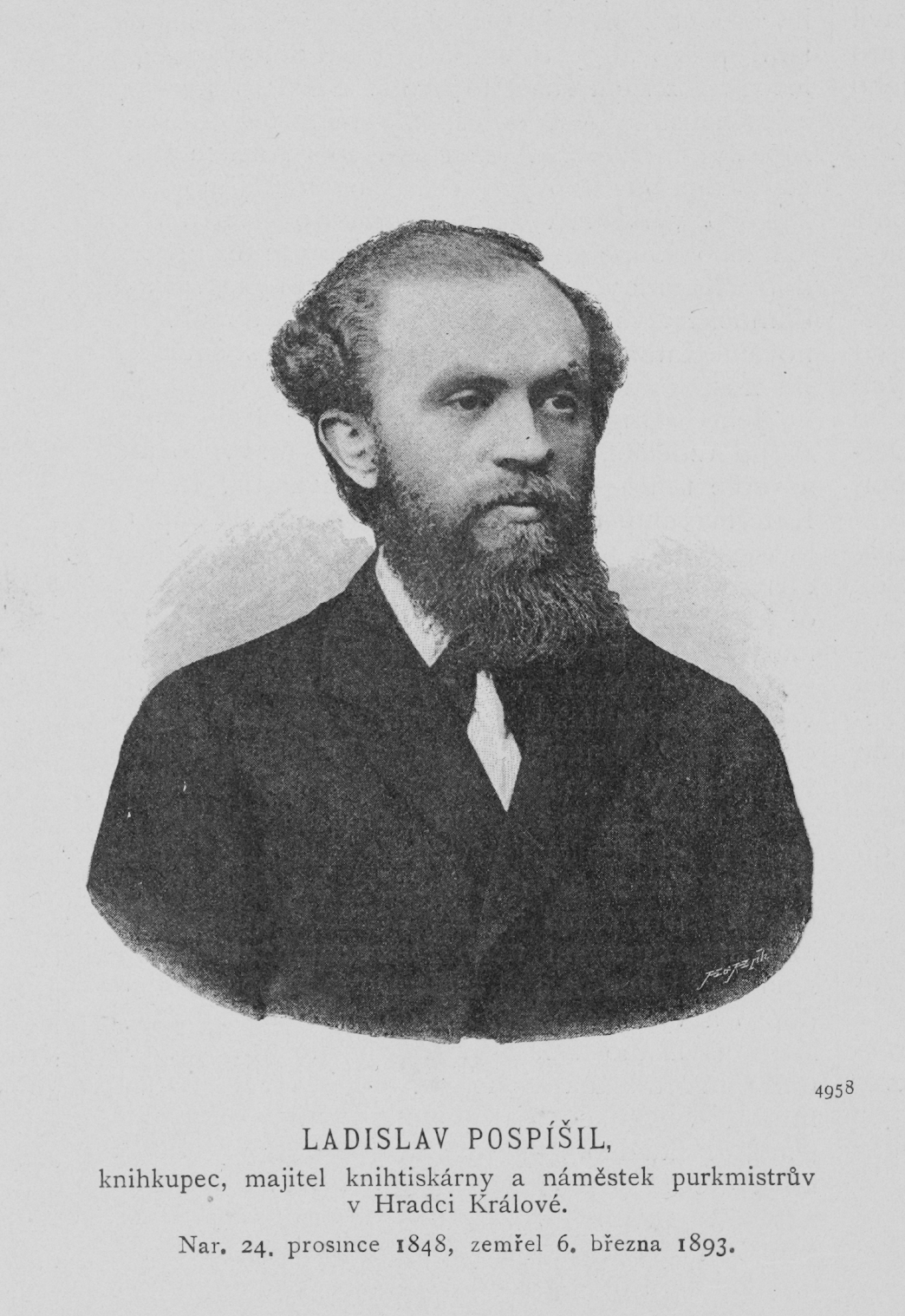 Portrait of Ladislav Pospíšil, Czech writer, bookseller, owner of a printing press and deputy mayor of Hradec Králové